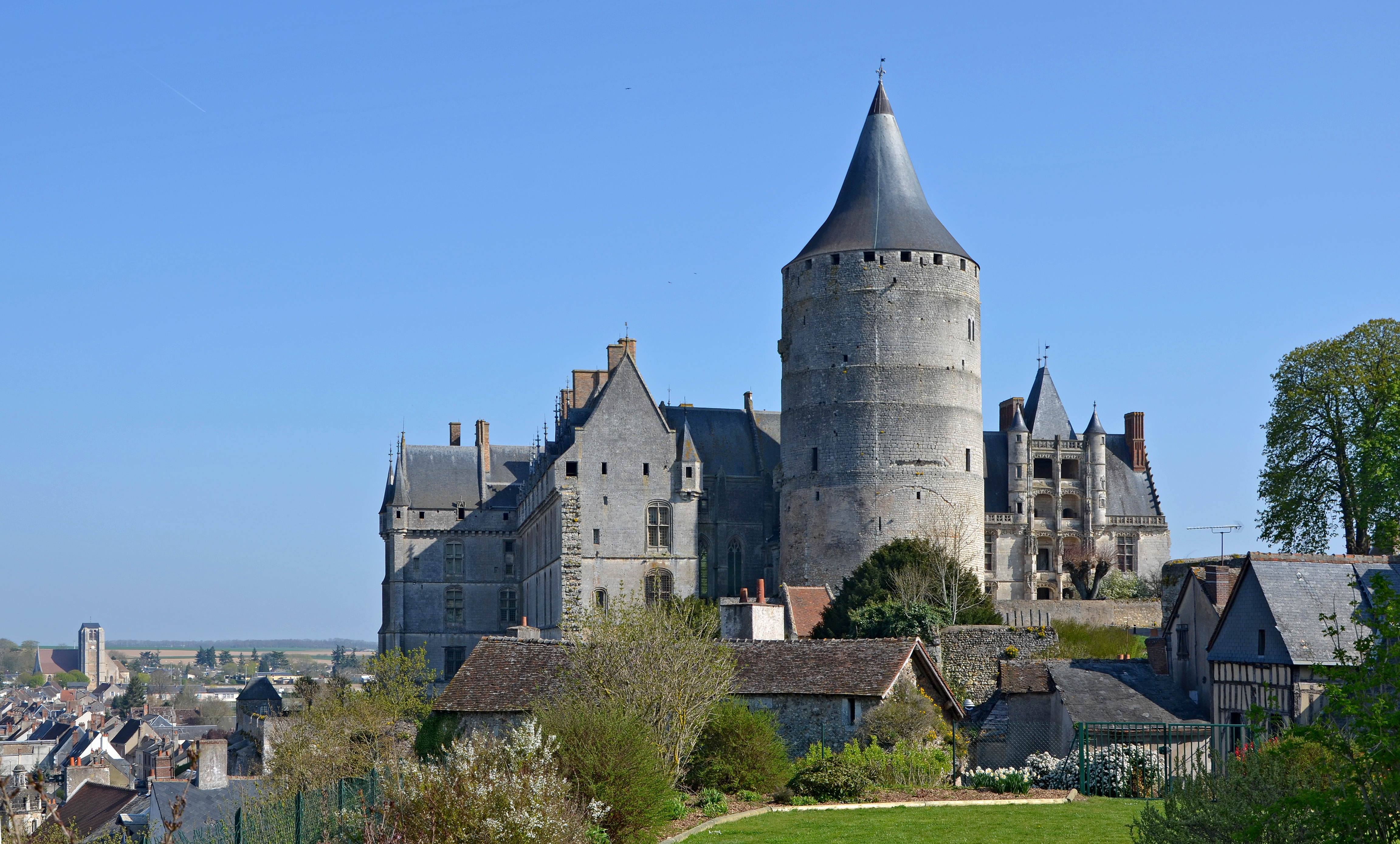 Castle of Chateaudun, Eure et Loir, France